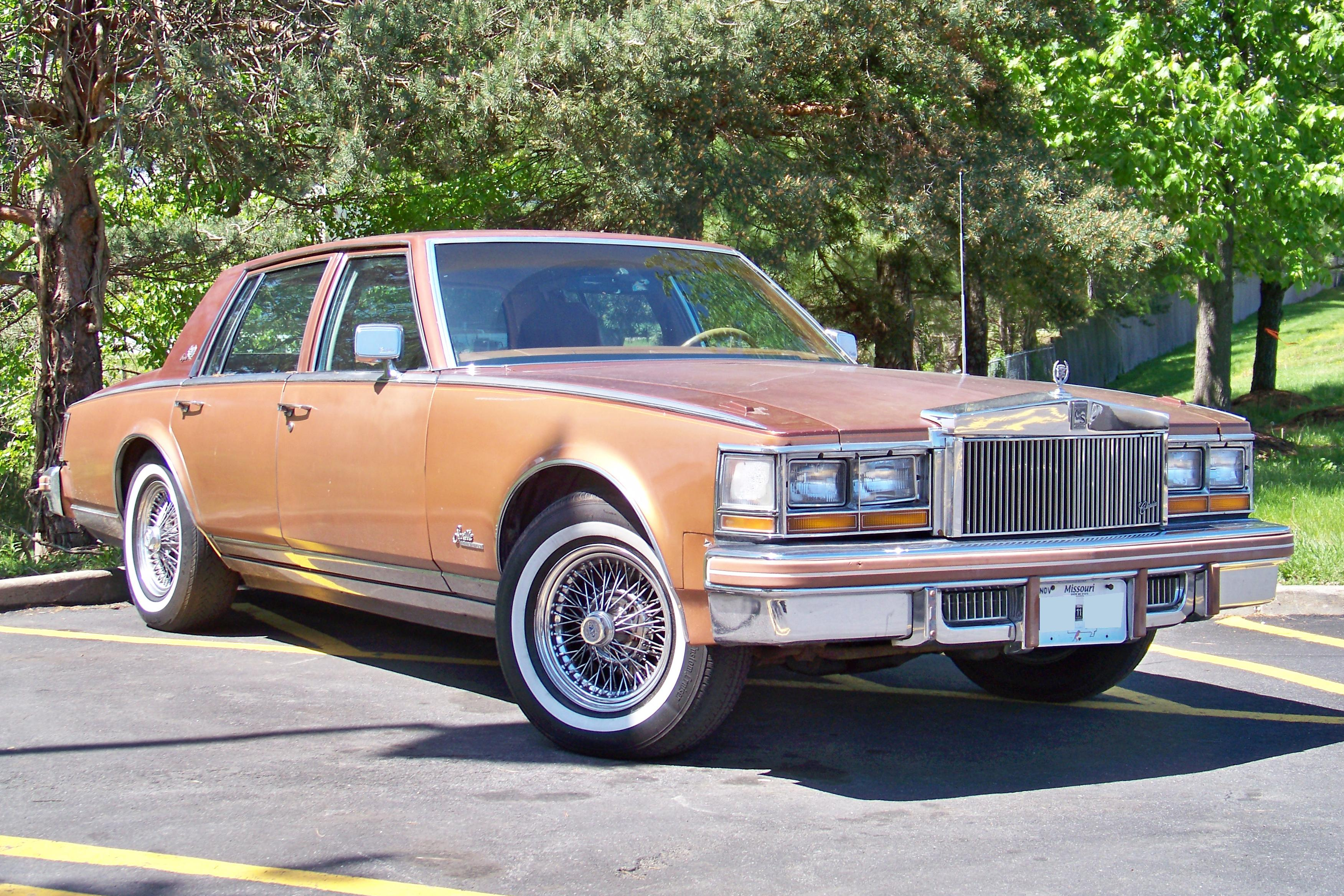 Cadillac Seville with non-standard aftermarket grill